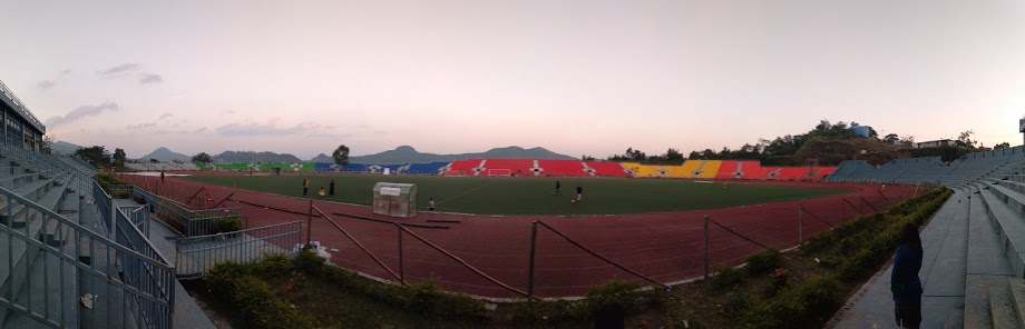 Raviv Gandhi Stadium, Mualpui